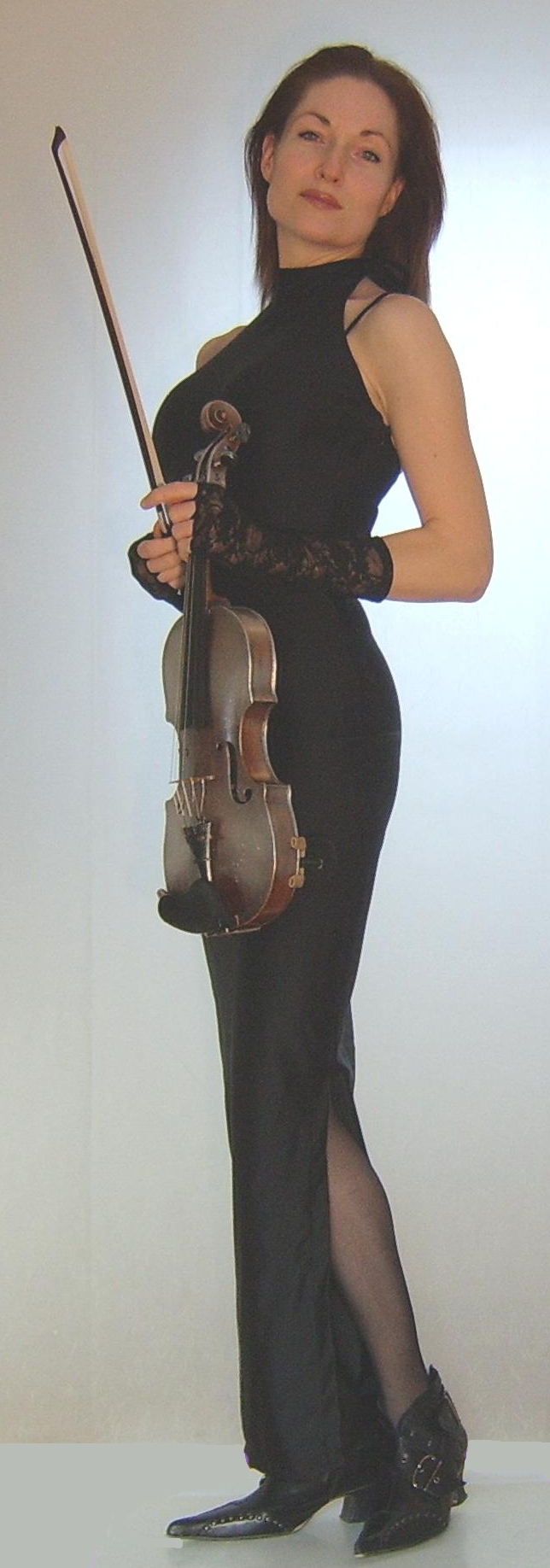 Classical violinist Catya Mare